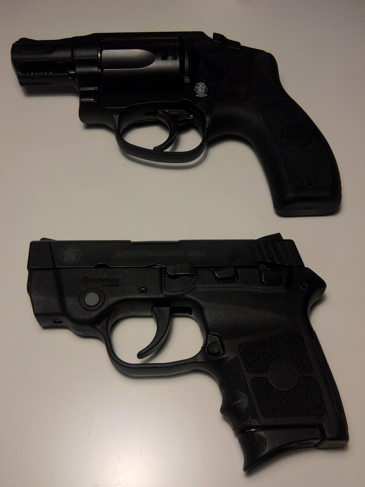 The Smith & Wesson Bodyguard .38 Special revolver and the Smith & Wesson Bodyguard .380 pistol.